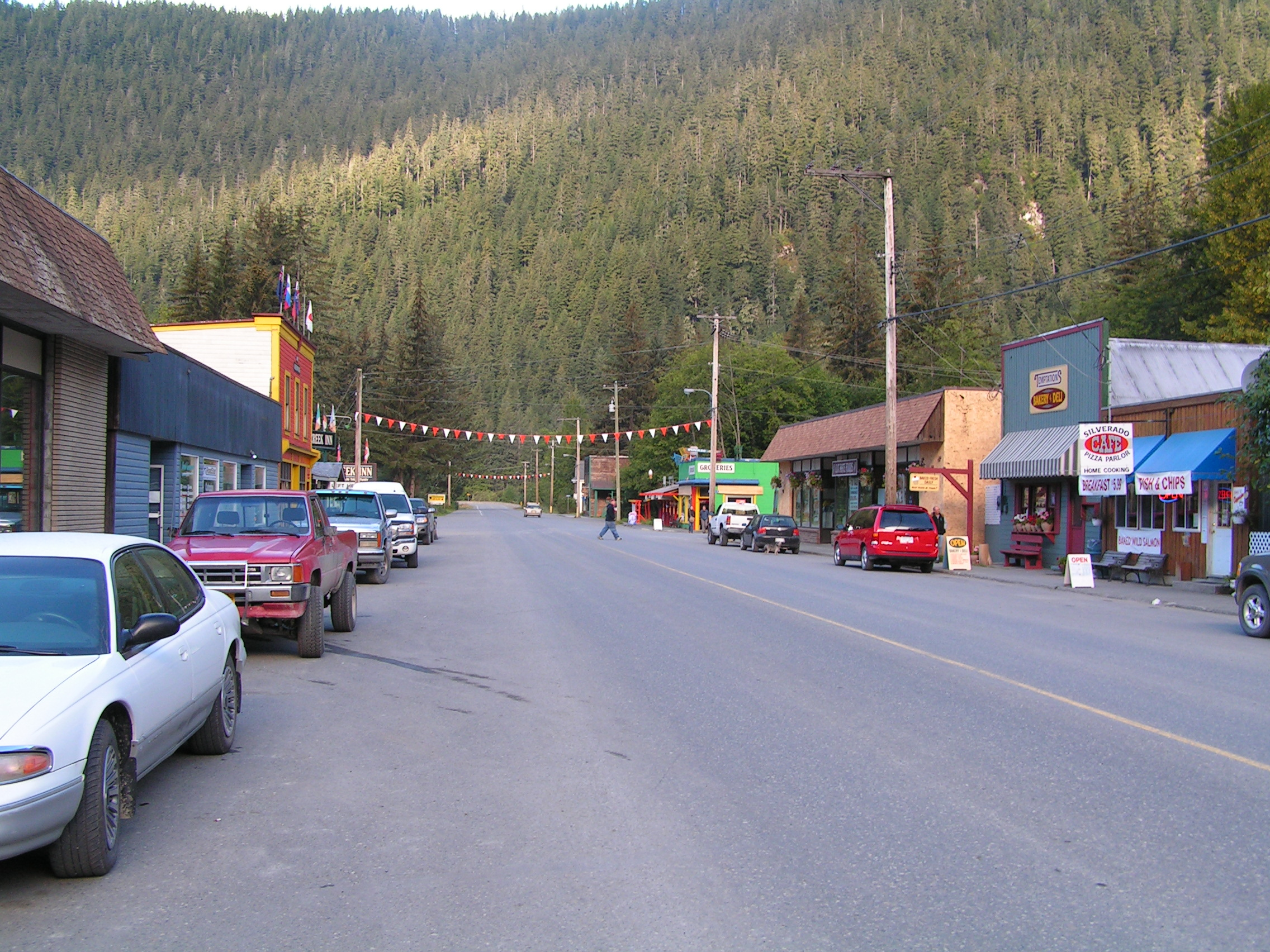 Downtown Stewart BC, CAN. (5th Avenue)